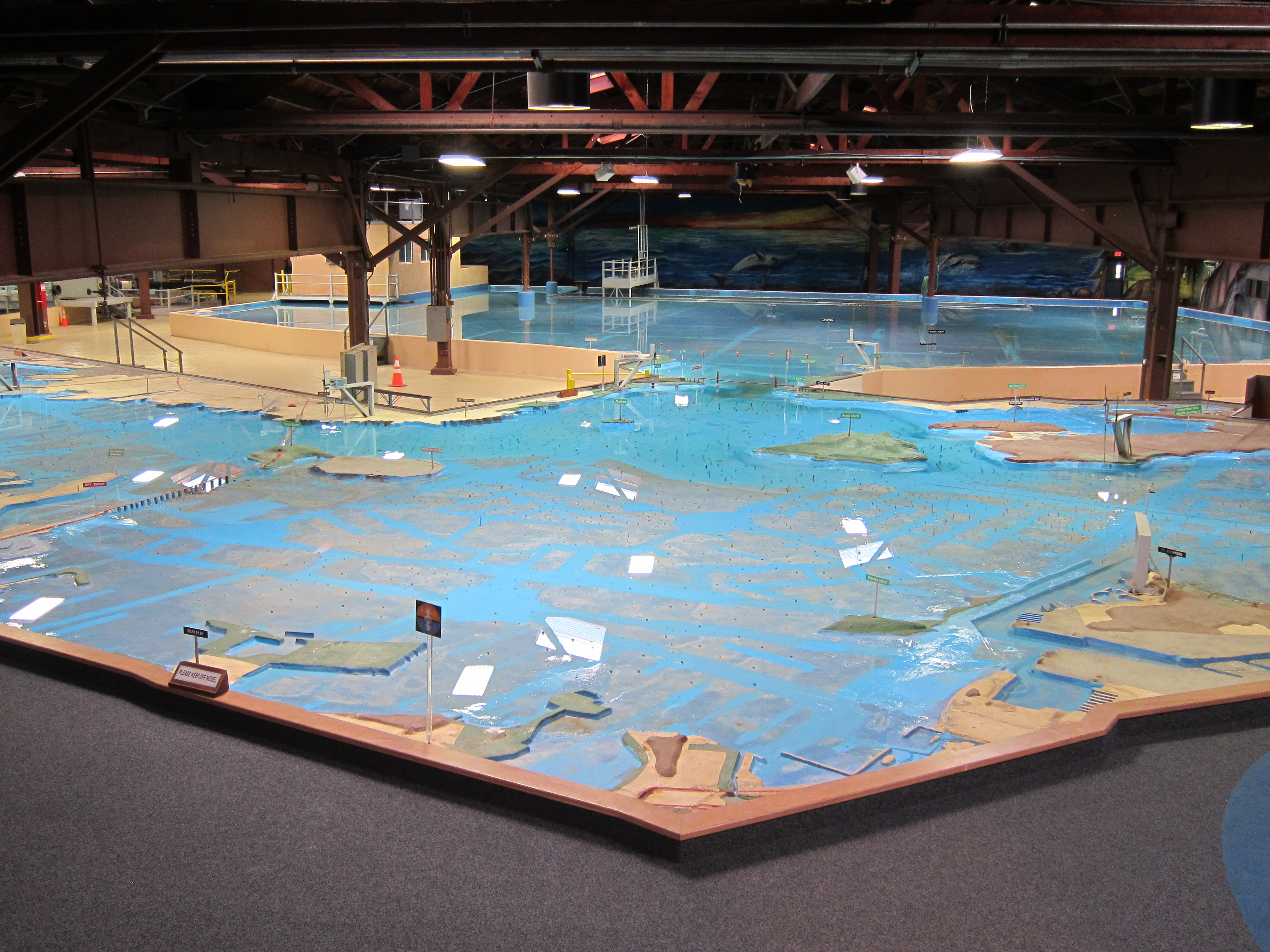 View of the U.S. Army Corps of Engineers Bay Model looking across the San Francisco Bay towards the Golden Gate and the Pacific Ocean. The closest land feature from this perspective is the Point Isabel Regional Shoreline in Richmond. Bay landmarks visible, from left to right, are the San Francisco – Oakland Bay Bridge, Yerba Buena Island, Treasure Island, Alcatraz Island, Golden Gate Bridge, and Angel Island. Photo taken February 9, 2012.